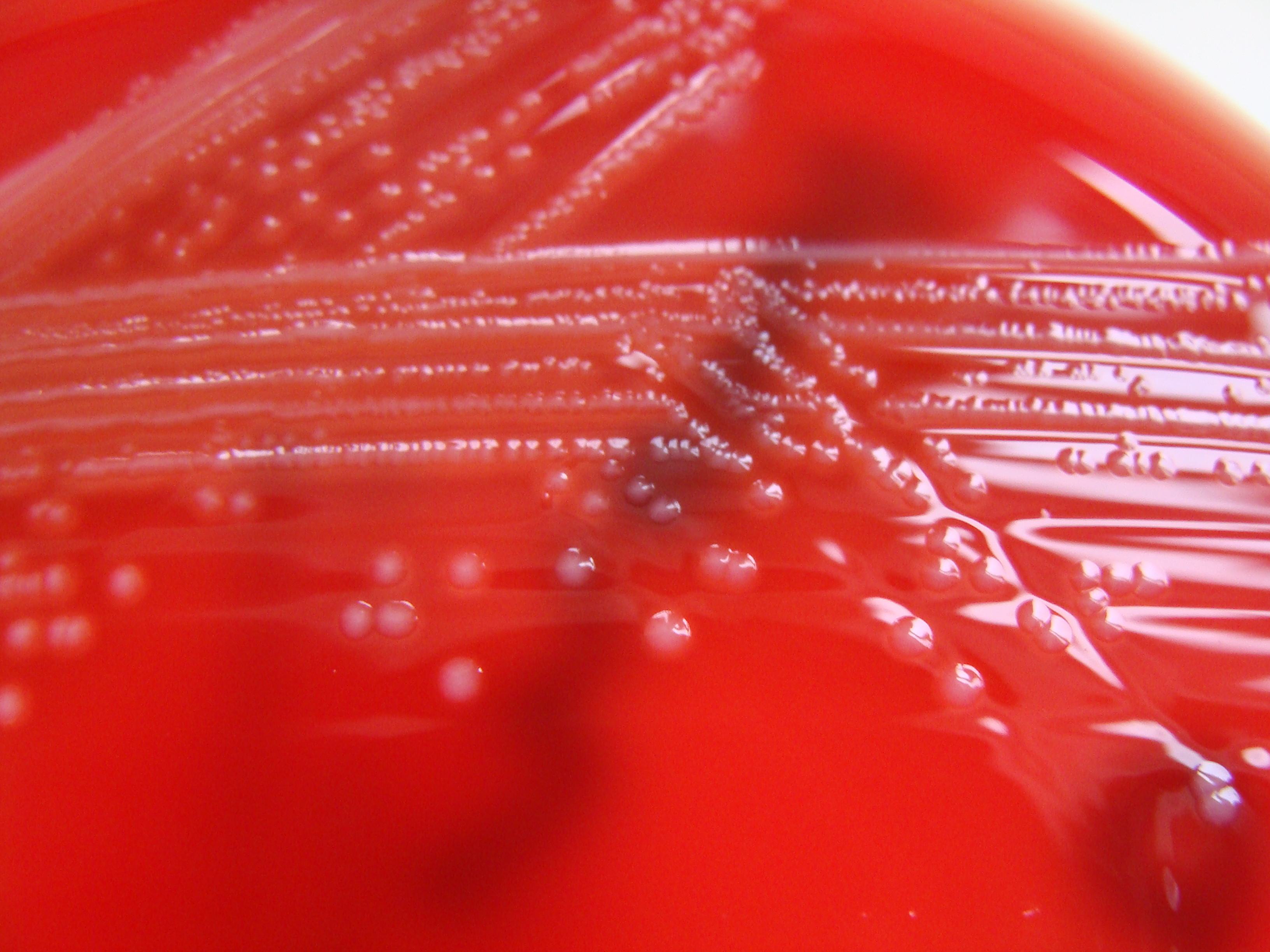 Listeria monocytogenes - Columbia Horse Blood Agar. Detail